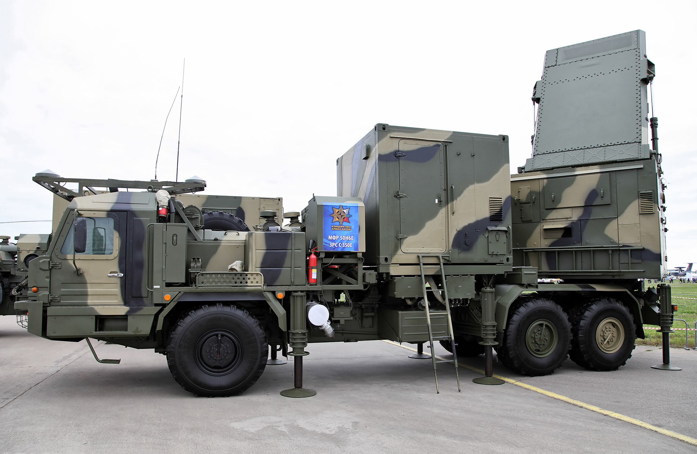 50N6E multifunctional radar.